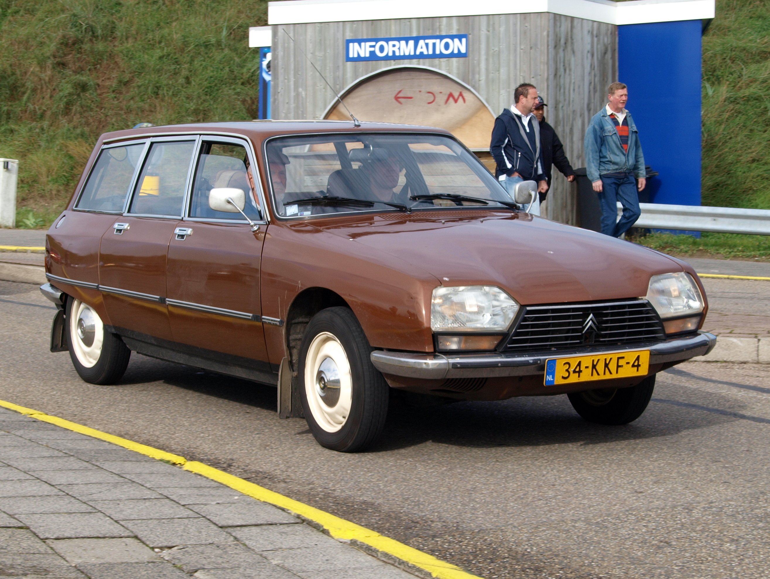 Photographed at the Nationaal Oldtimer Festival Zandvoort 2010, The Netherlands.